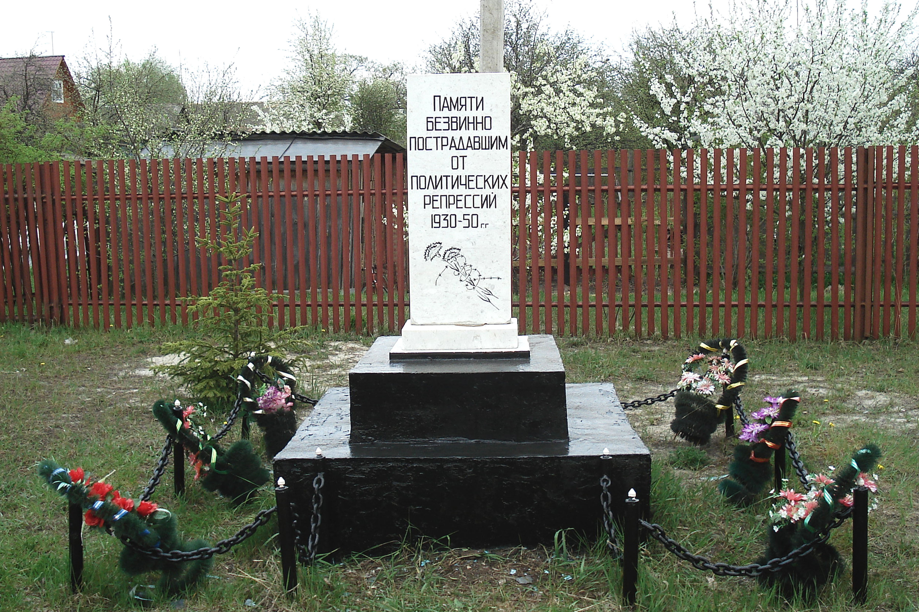 Victims_of_Great_Purge_1930-50_Memorial. Davydovo, Moscow Oblast